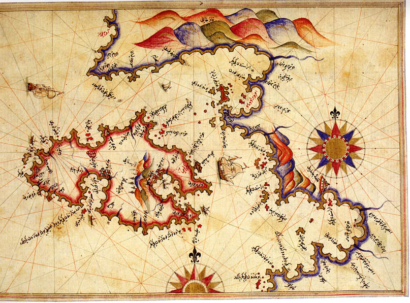 Lesbos in Greece and Ayvalık in Turkey on the Kitab-ı Bahriye (Book of Navigation) of Piri Reis